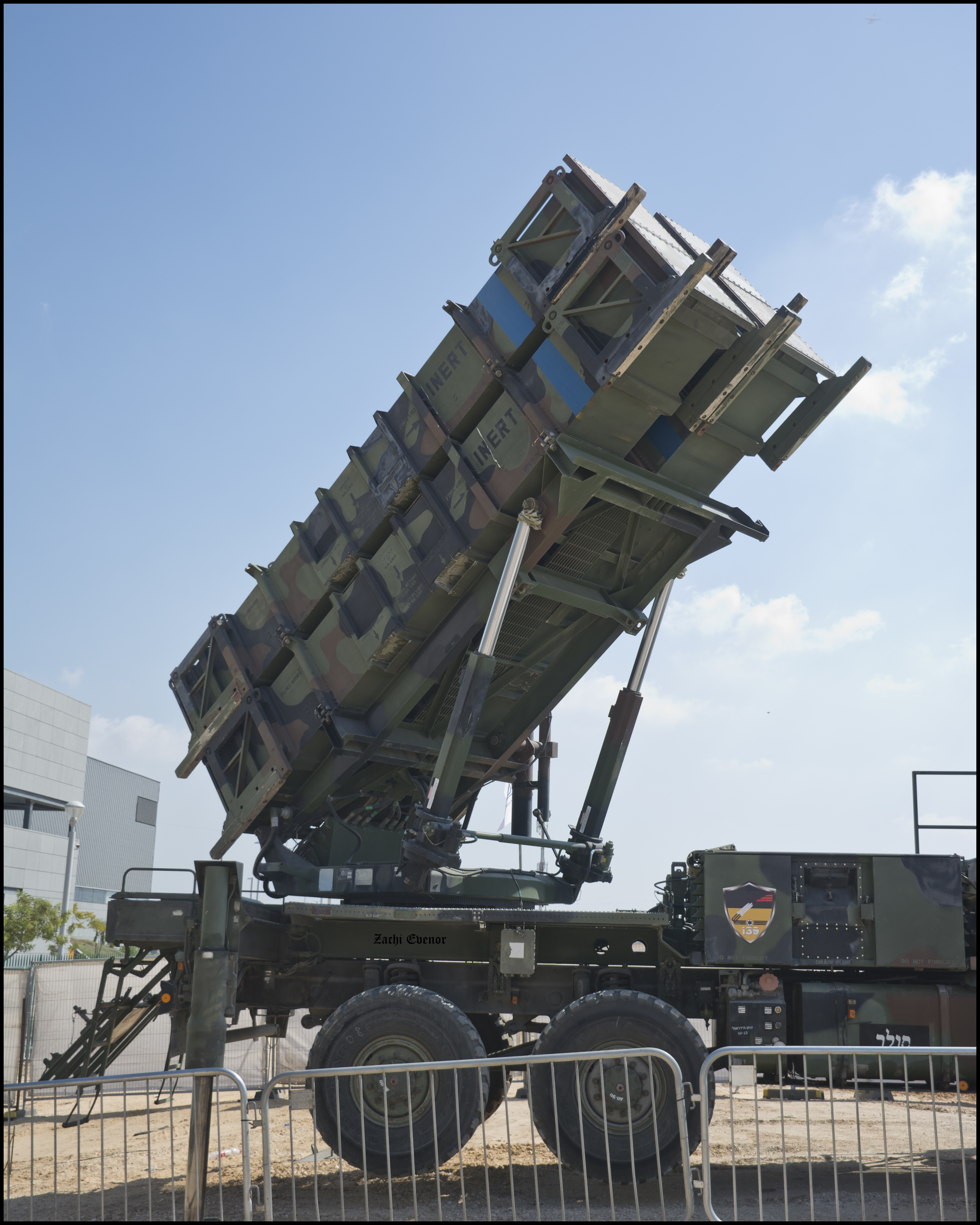 "Yahalom" - MIM-104D Patriot SAM, Our IDF 70, Israel